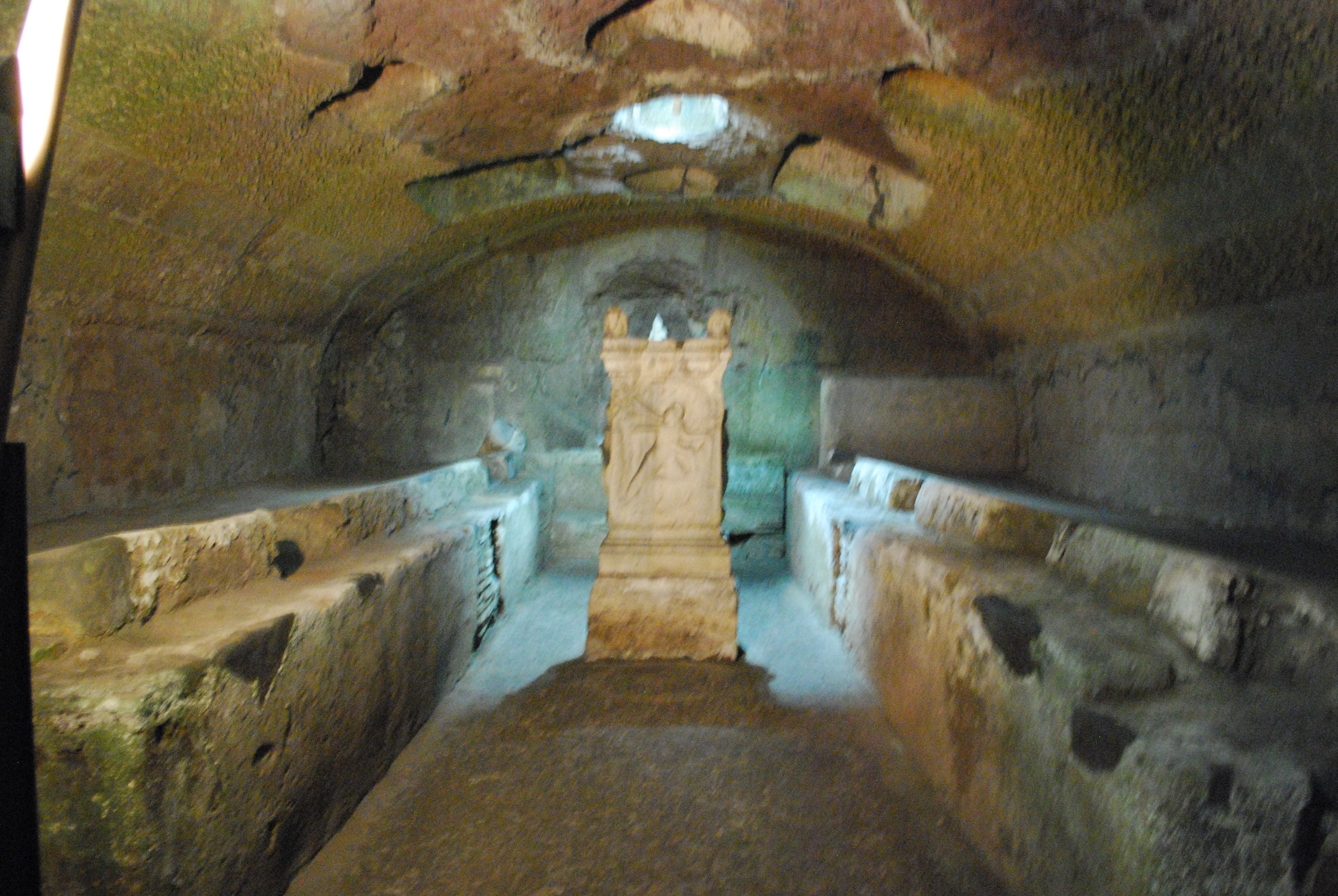 This is an image of the interior of San Clemente Mithraeum. A Mithraeum is a temple of Mithras. This image was described on Flickr as "The Basilica di San Clemente is an 11th century church, built atop a 4th century church, which is on top of a first century apartment building which contained both a secret Christian house church and a Mithraic temple. This is the Mithraeum, a temple of the Mithraic religion."